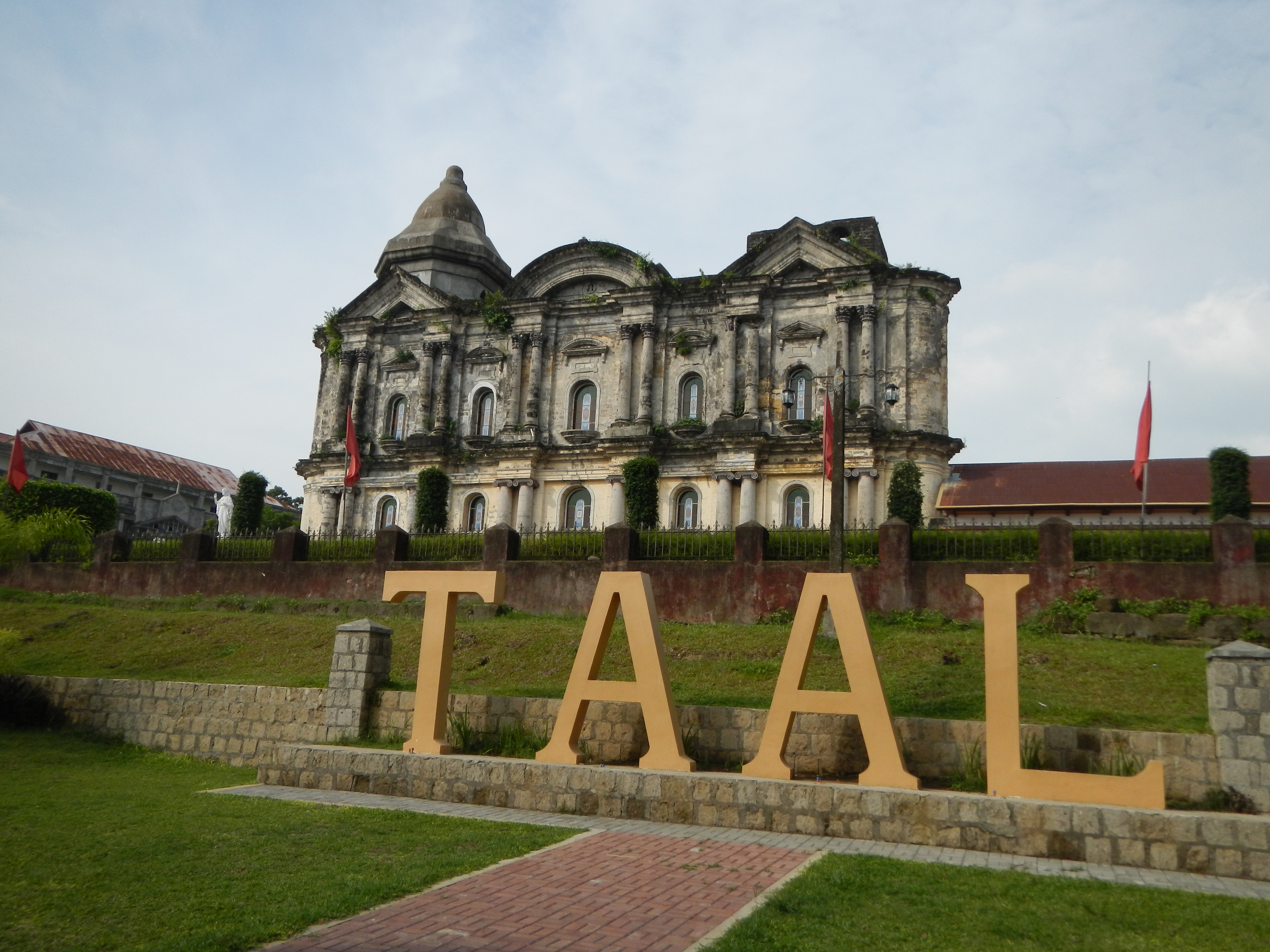 Heritage Town – 1572 Casa Real - Municipal Government of Taal, Escuela Pia - Taal Cultural Center, Taal Town Plaza & Basketball Court and the 1923 Rizal College of Taal/beside/adjacent - in front of the --- Basilica de San Martin de Tours (Taal)[1]Basilica de San Martin de Tours is a Minor Basilica in the town of Taal, Batangas in the Philippines, within the Archdiocese of Lipa. It is considered to be the largest church in the Philippines and in Asia, standing 96 metres (315 ft) long and 45 metres (148 ft) wide. St. Martin of Tours is the patron saint of Taal, whose fiesta is celebrated every November 11. It is under Metropolitan Archbishop Ramon Cabrera Argüelles of Lipa City, Batangas[2] It belongs to the [3] Roman Catholic Archdiocese of Lipa - Vicariate II: Vicariate of Saint John Mary Vianney. Taal, Batangas[4]Taal is a second class municipality in the province of Batangas, Philippines. According to the latest census, it has a population of 51,459 people in 8,451 households.